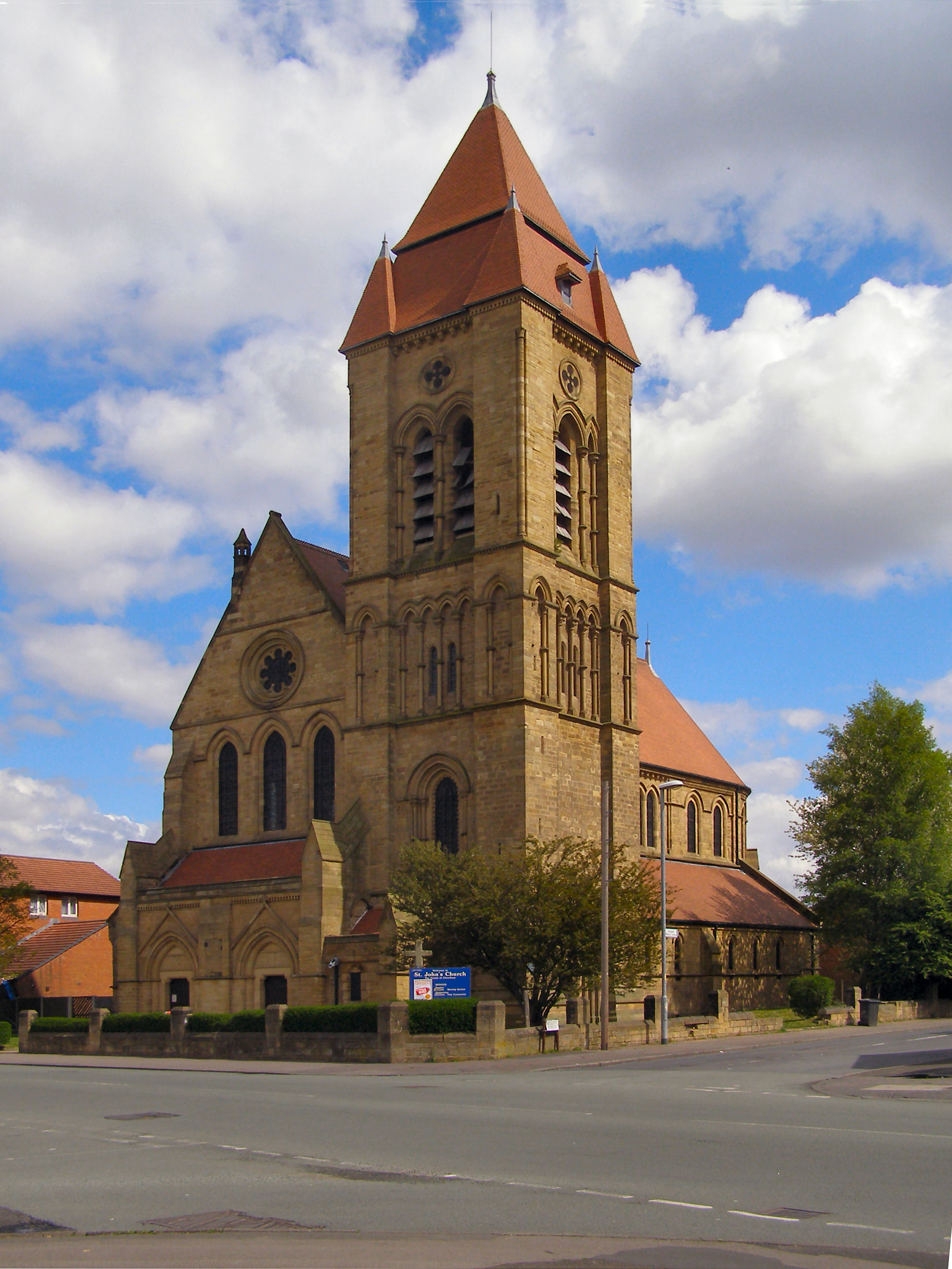 Photograph of St John's Church, Cheetham, Manchester, England